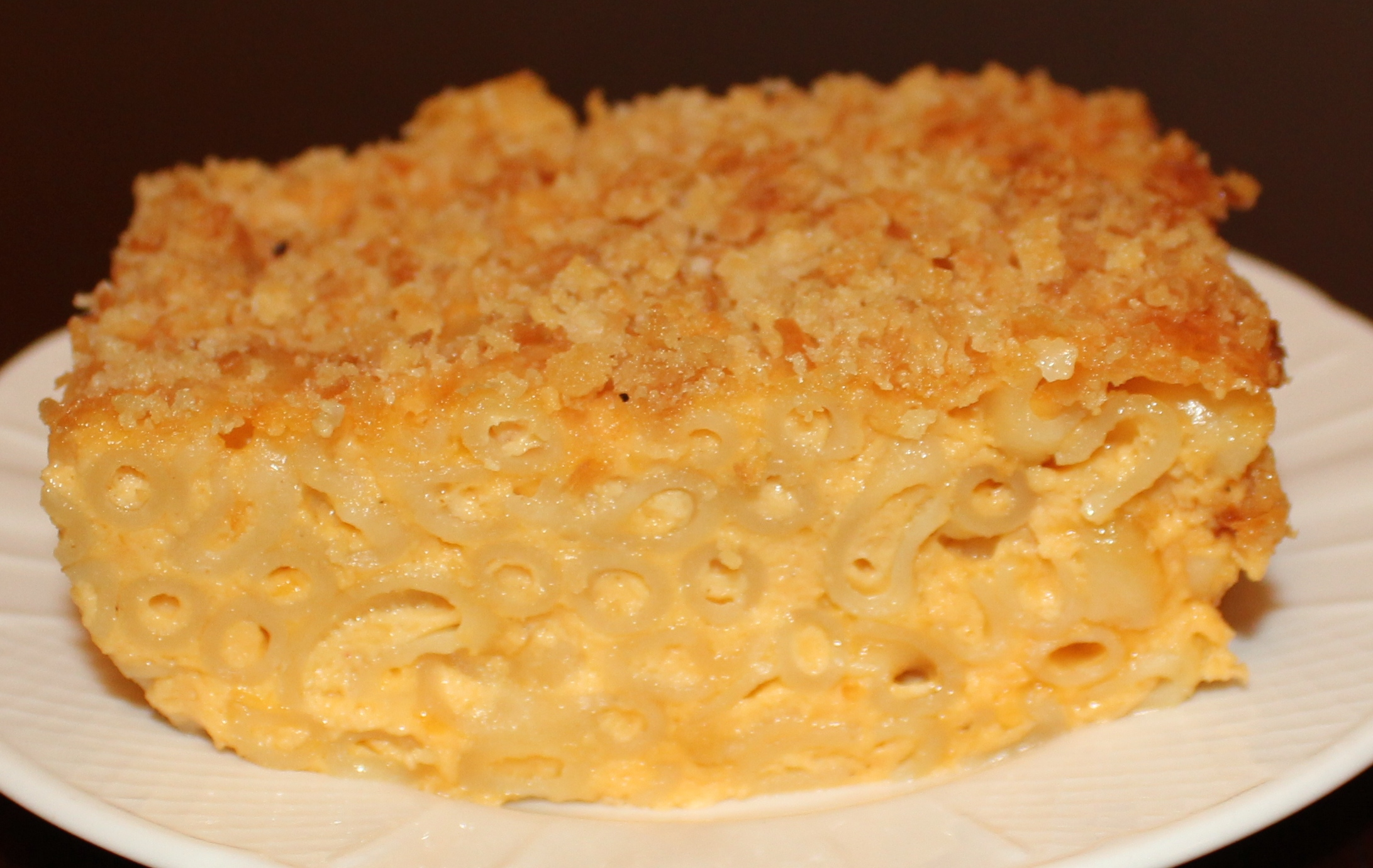 Baked Macaroni and Cheese recipe available at